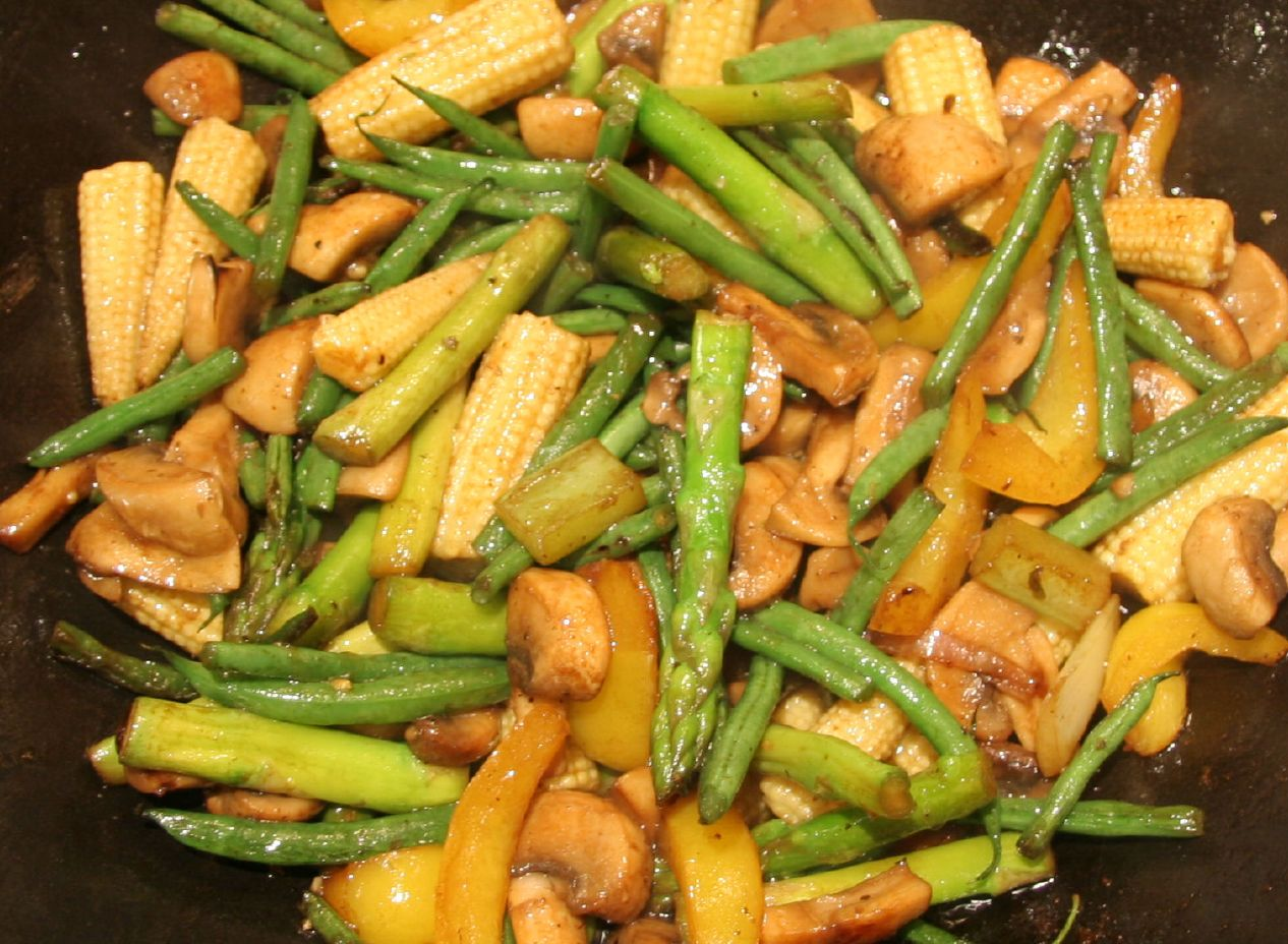 Mushrooms, celery, capsicum, beans, baby corn, asparagus, onion. Not a bit of meat in sight. Finished à la Dave (or is that au Dave?) with ground nutmeg and pepper and soy sauce. ((Uploaded to Wikipedia to showcase baby corn.))